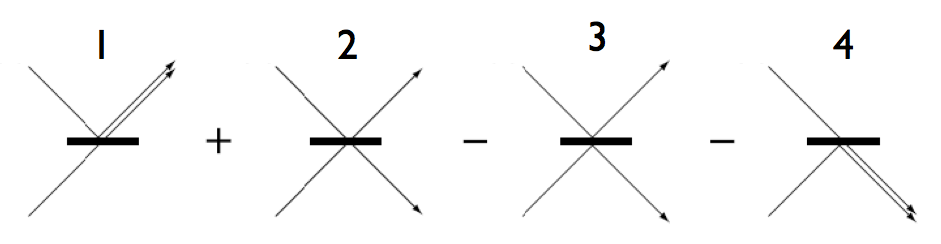 Four different ways for two identical photons to interact with a beam splitter.